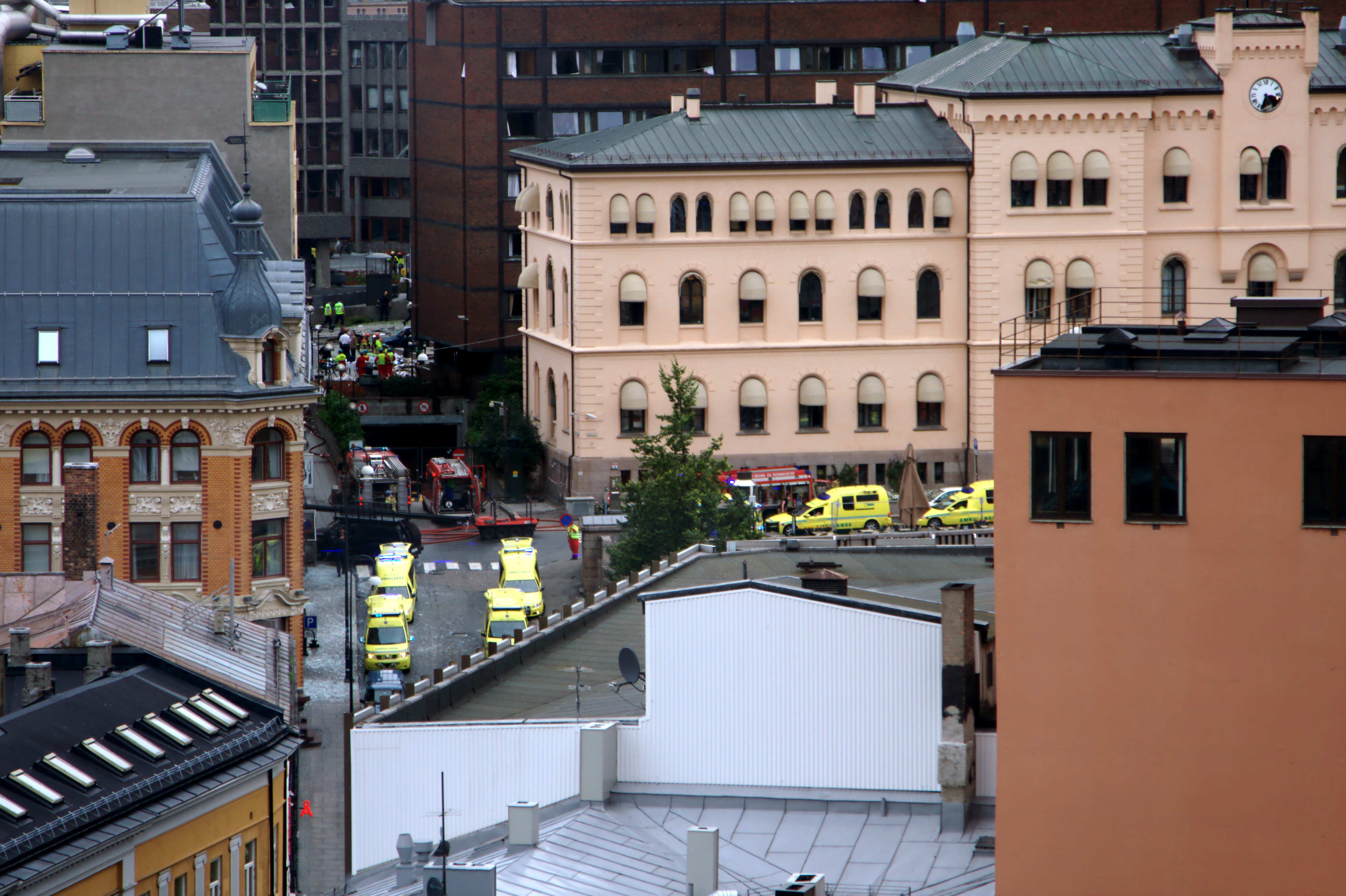 First responders to the 2011 Oslo bombing.